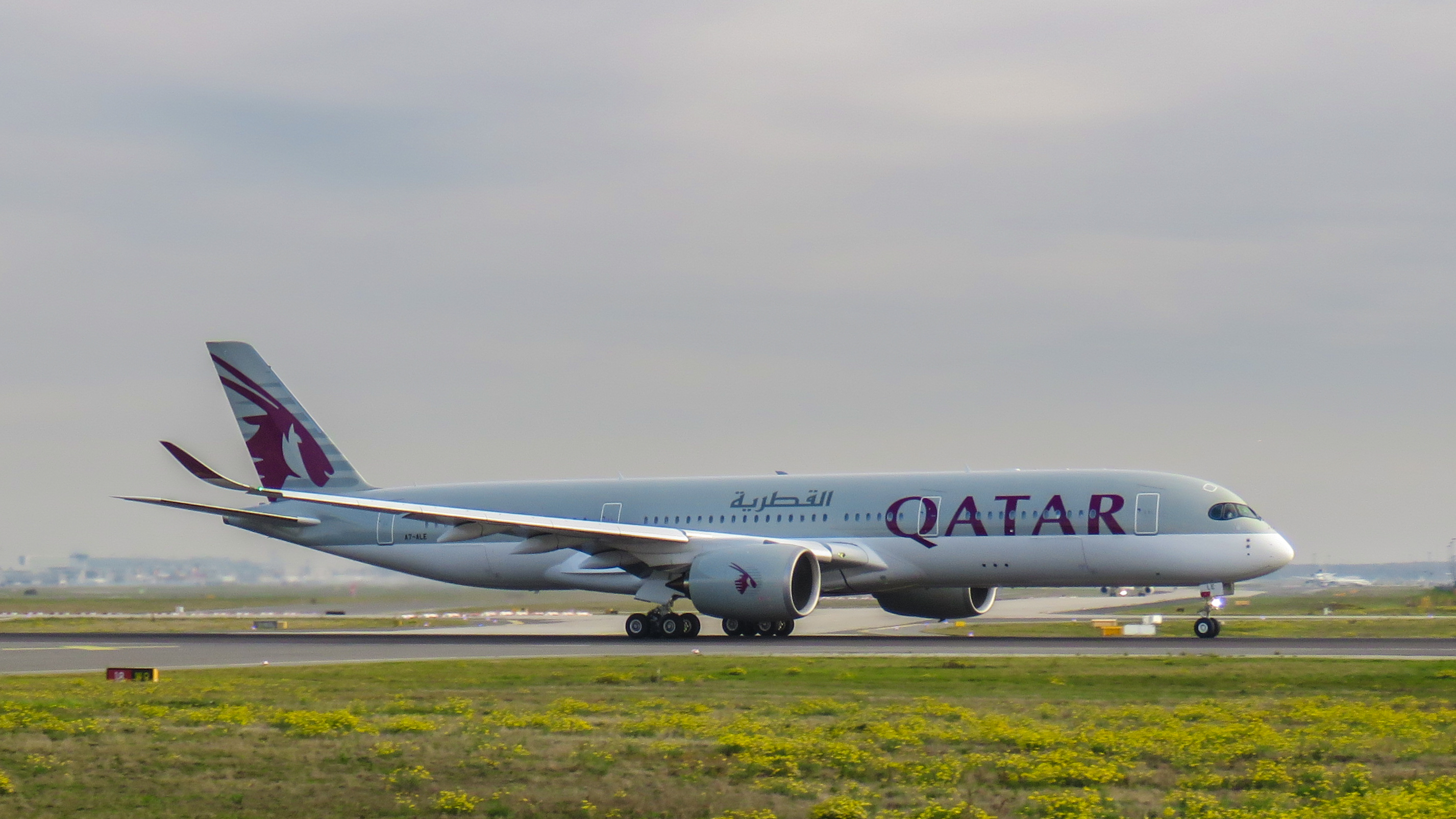 Qatar Airways Airbus A350-941 A7-ALE